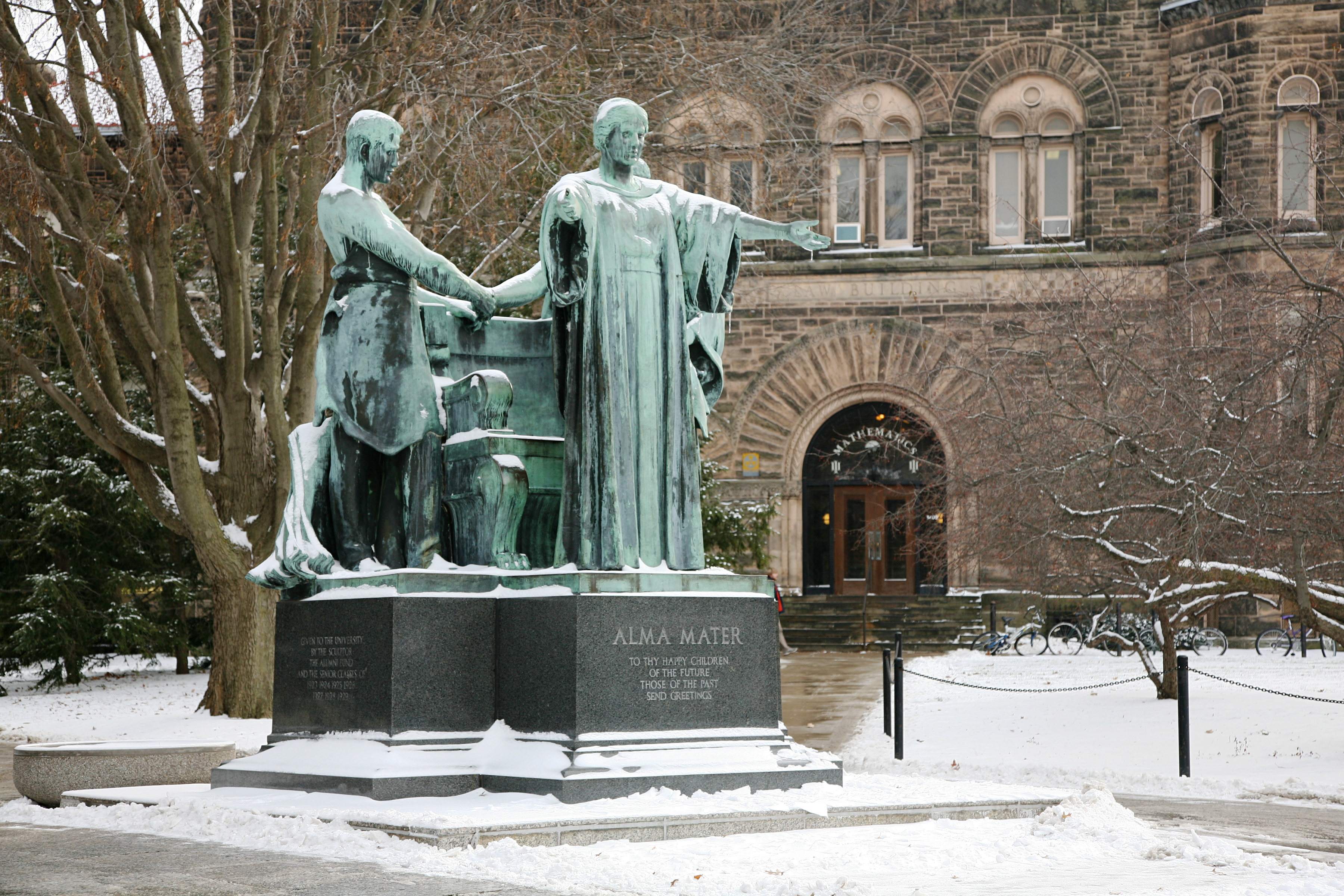 Alma Mater statue (Taft, 1929) in front of Altgeld Hall on the campus of the University of Illinois at Urbana-Champaign